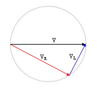 Phasor (Fresnel) diagram of an inductor and a resistor in series. 2006